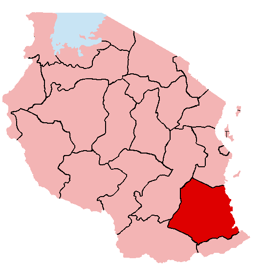 Map of Tanzania showing Lindi Region; created with the GIMP.